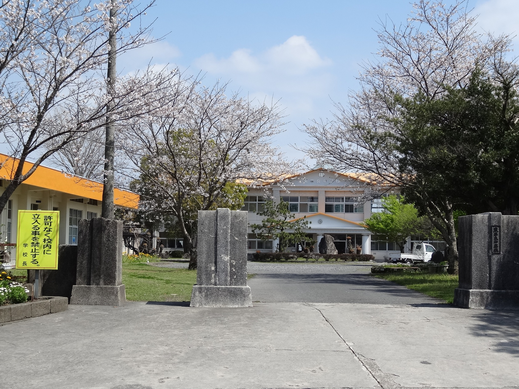 Higashi-kushira Junior High School (Higashikushira Town, Kagoshima, Japan)